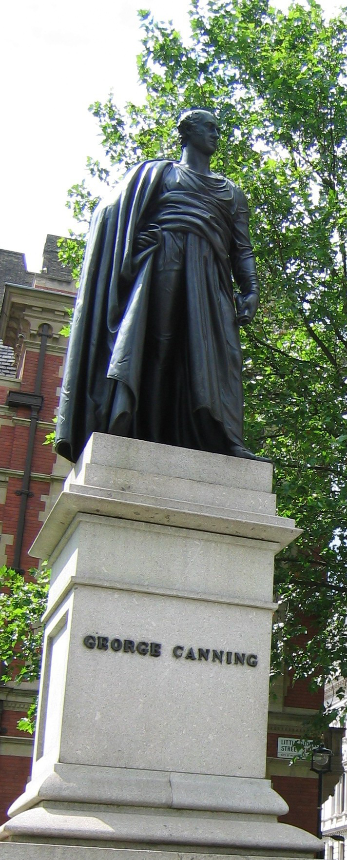 Statue of George Canning, near Westminster Abbey, London